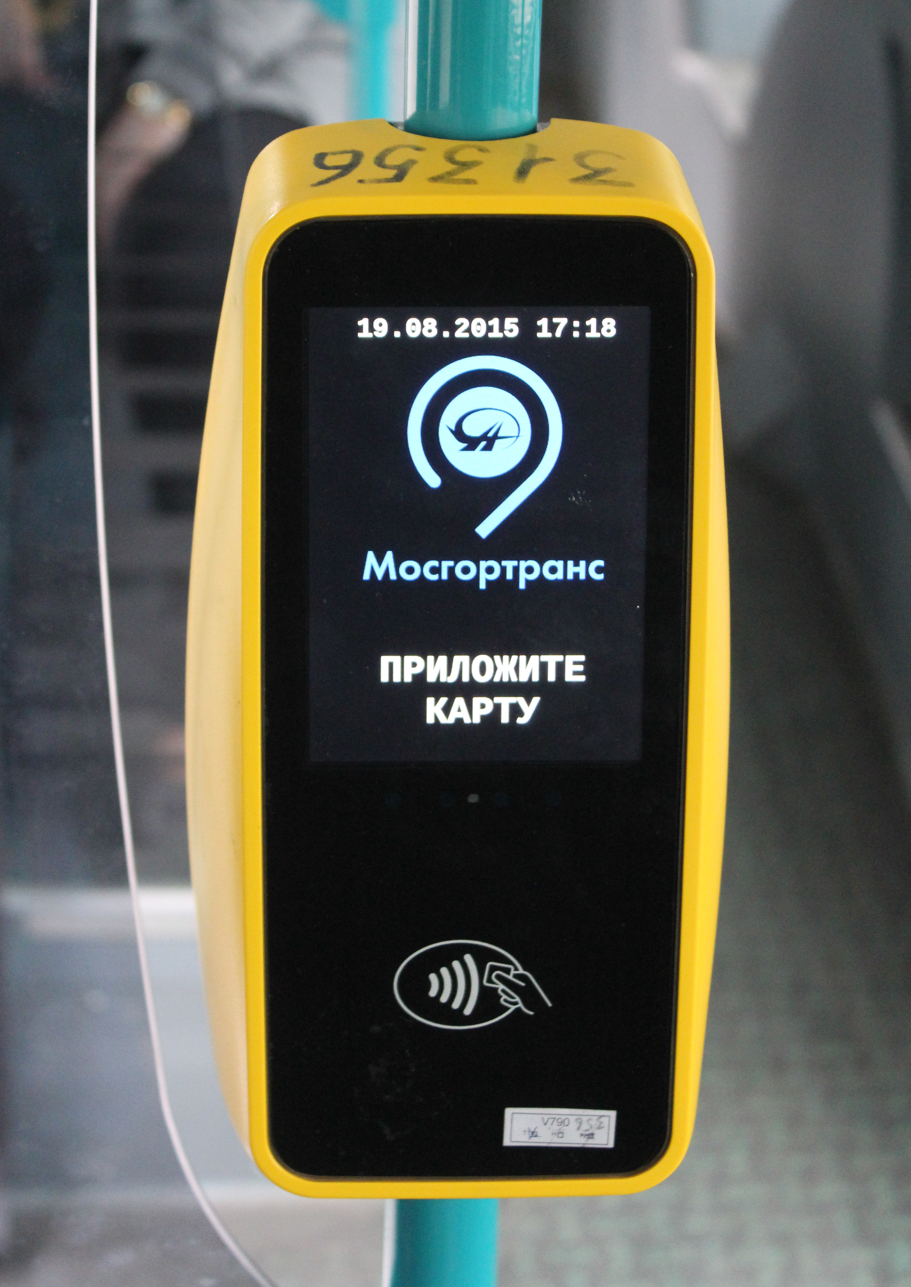 Smart card machines in Bus in Moscow. The text says in